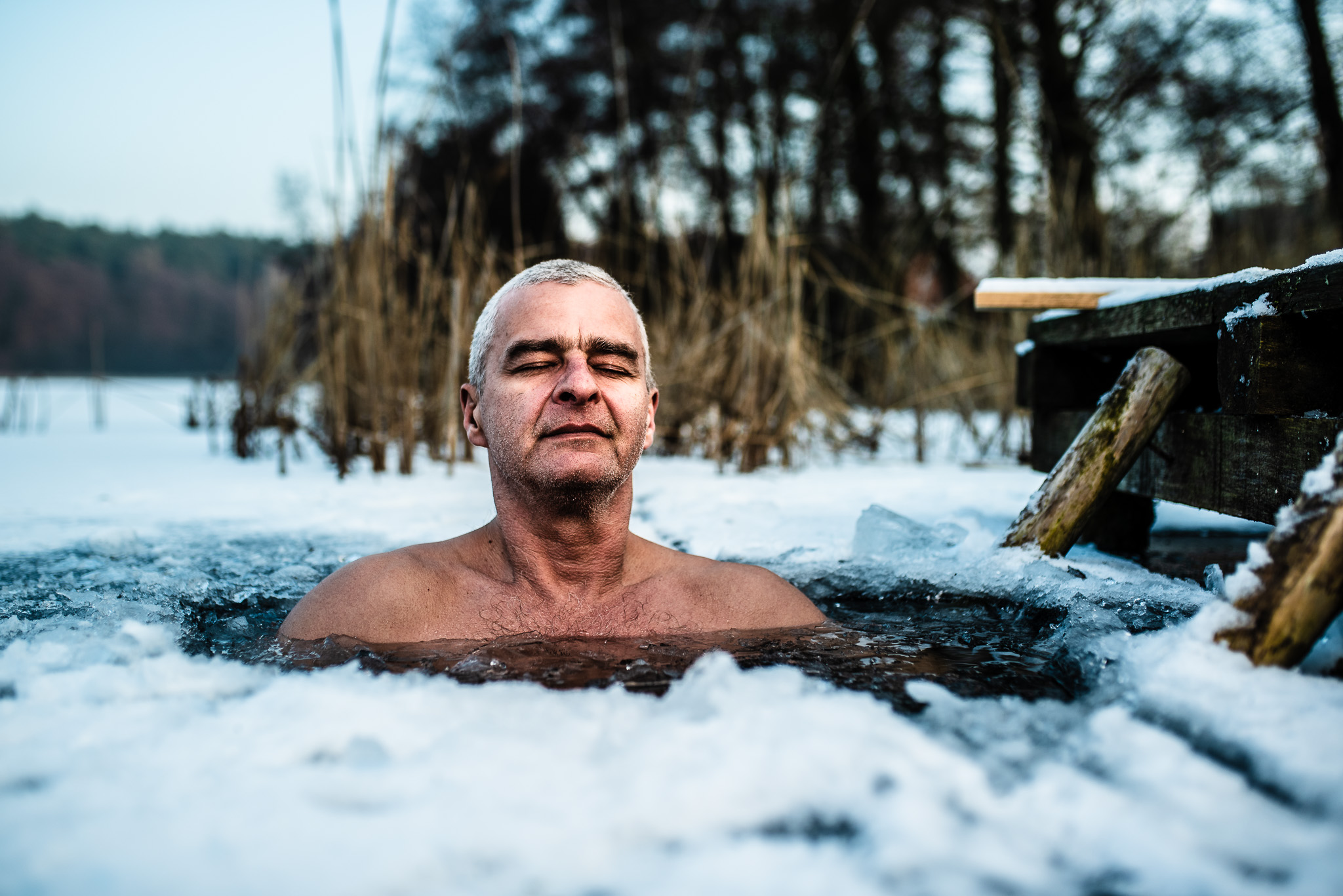 Piotr Gronek, AWF Poznań, Ice-Water Immersing, -14C air, +1C water